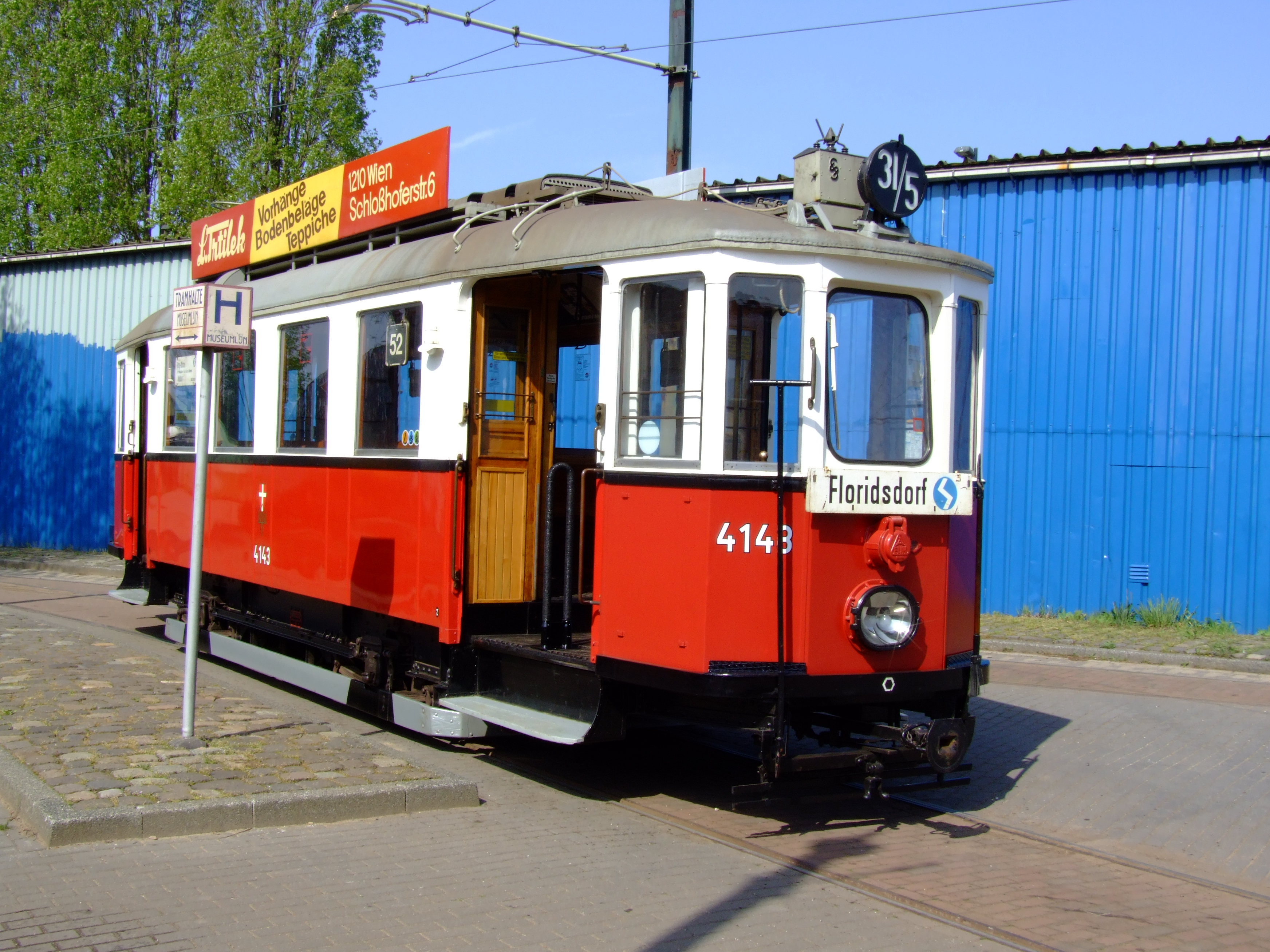 Part of the Electrische Museumtramlijn Amsterdam collection. Museum tram 4143 Floridsdorf